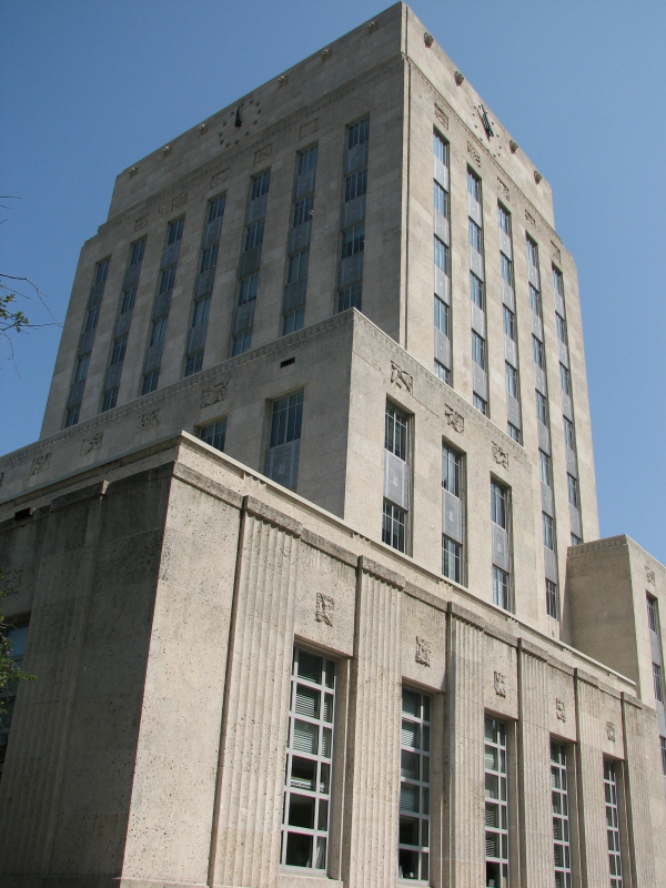 Houston City Hall